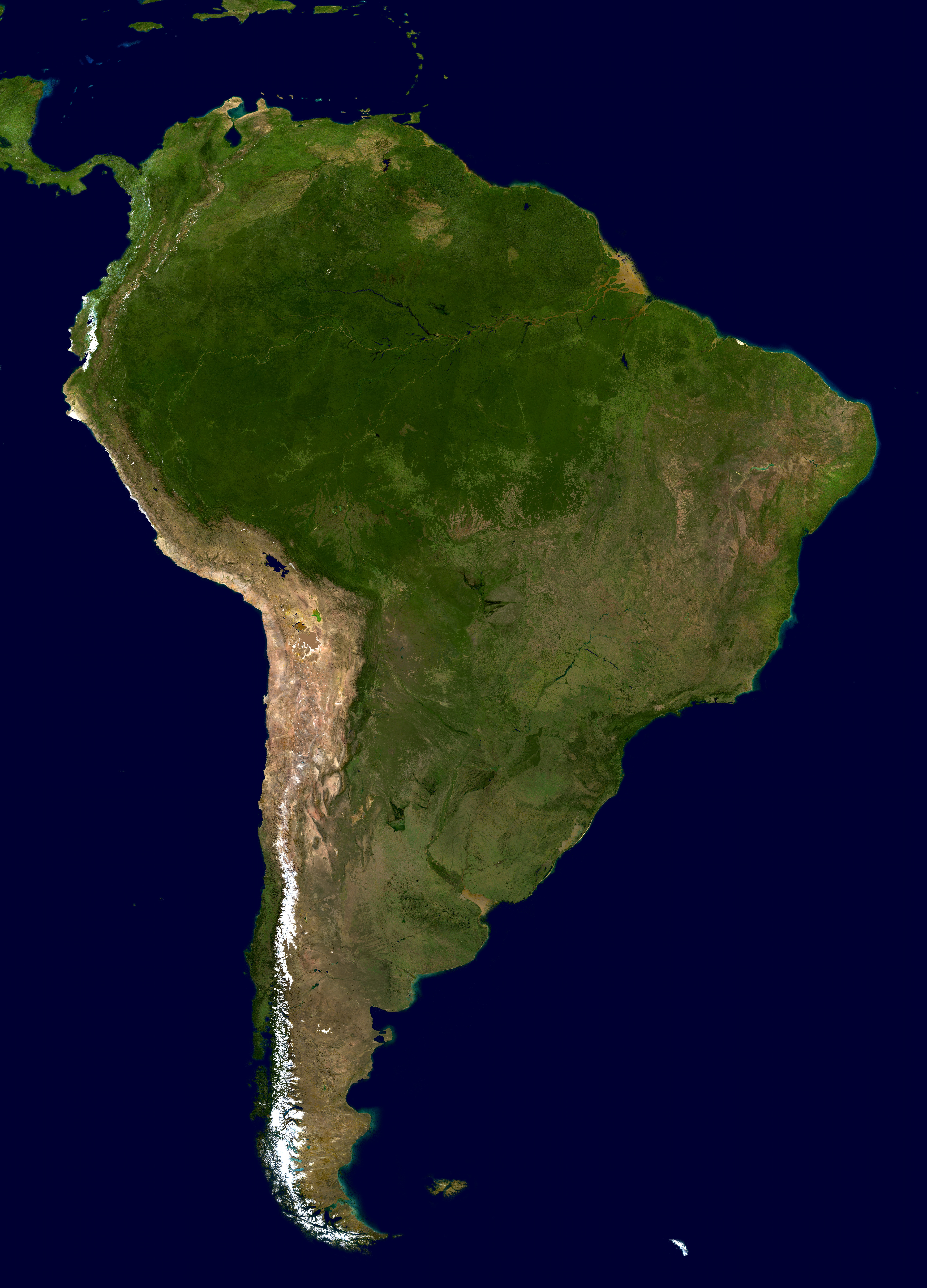 South America. An orthographic projection of NASA's Blue Marble data set (1 km resolution global satellite composite). Image generated by custom Python code with orthographic projection formulas from MathWorld.